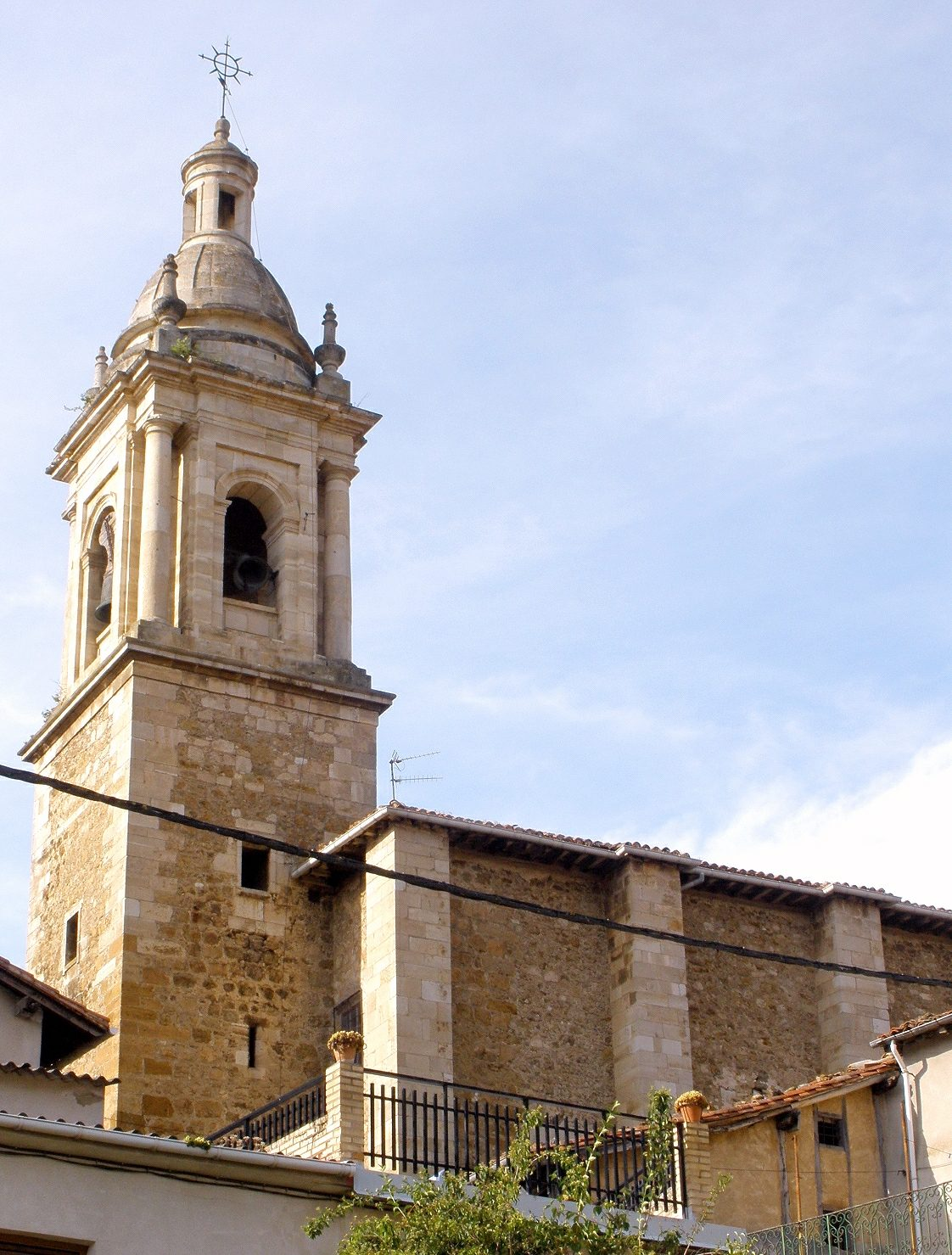 Iglesia de San Vicente Mártir, en Antoñana (Álava)